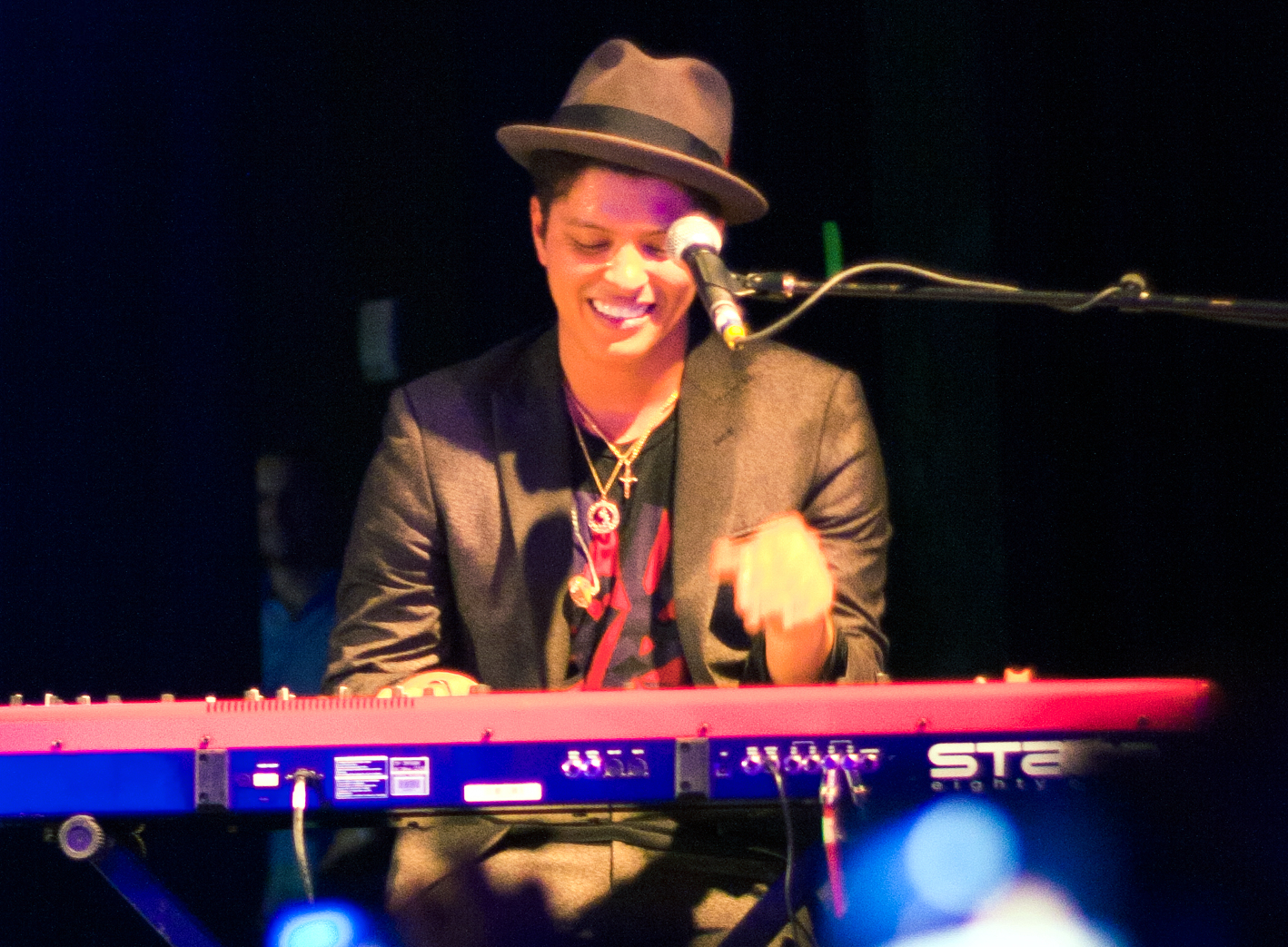 Bruno Mars performing in Houston, Texas on November 24, 2010